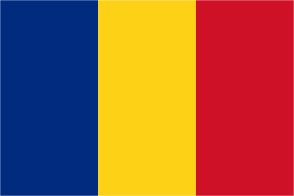 Flag of Romania